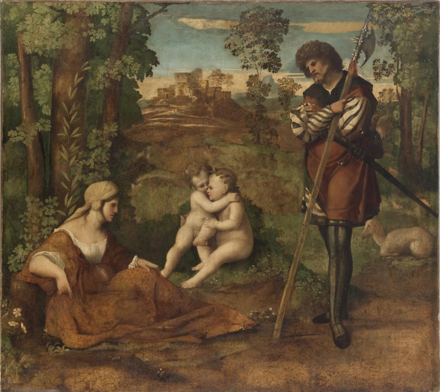 Allegory